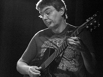 Hilmar Jensson performing in Aarhus Denmark 2014